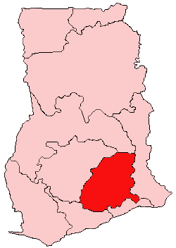 Map of Ghana showing Eastern Region; created with the GIMP. Made by User:Acntx.